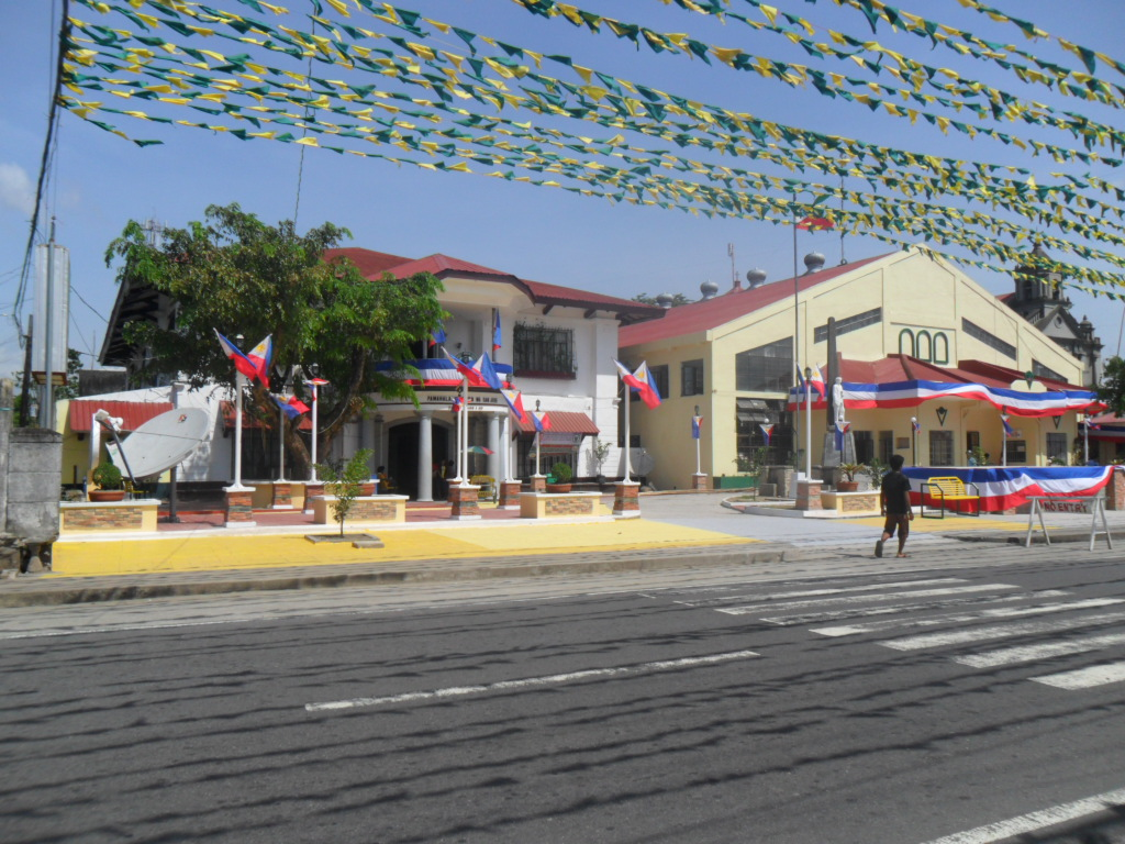 Side entrance going to San Jose Town Hall.